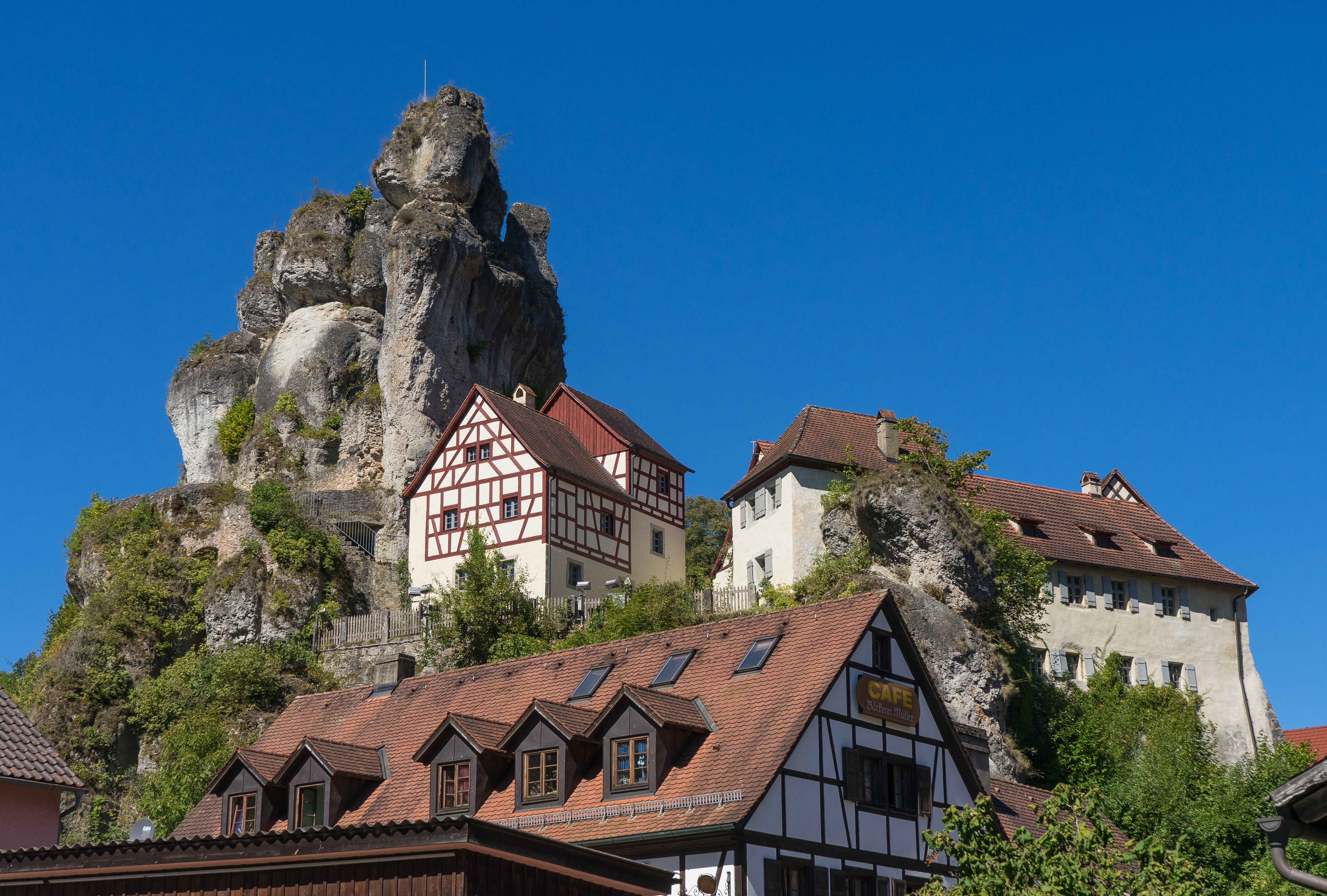 Rockvillage Tüchersfeld, Pottenstein, Franconian SwitzerlandThis is a photograph of an architectural monument.